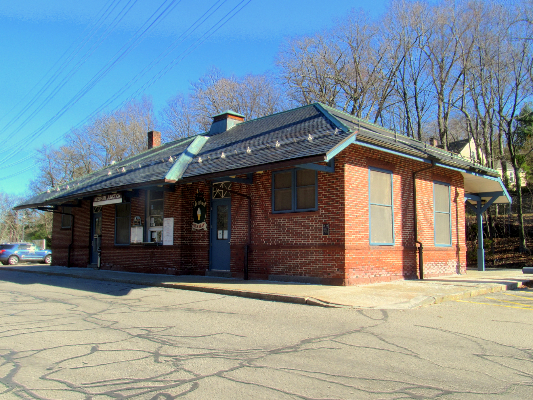 Needham Junction station in March 2016